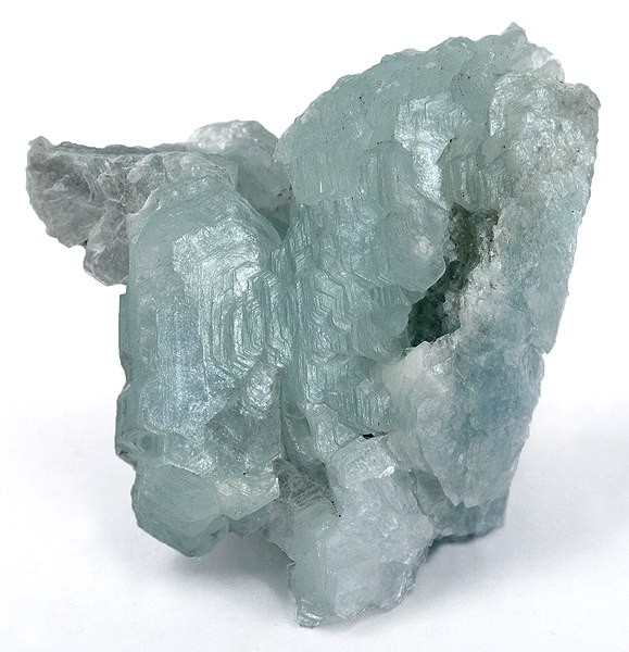 Brucite Locality: Palabora mine, Loolekop, Phalaborwa, Limpopo Province, South Africa (Locality at ) Size: 4.6 x 4.4 x 2.3 cm. This is a very fine specimen, a large miniature, of unusual blue brucite from the Palabora Mine. This piece has extremely good aesthetics and crystal definition.